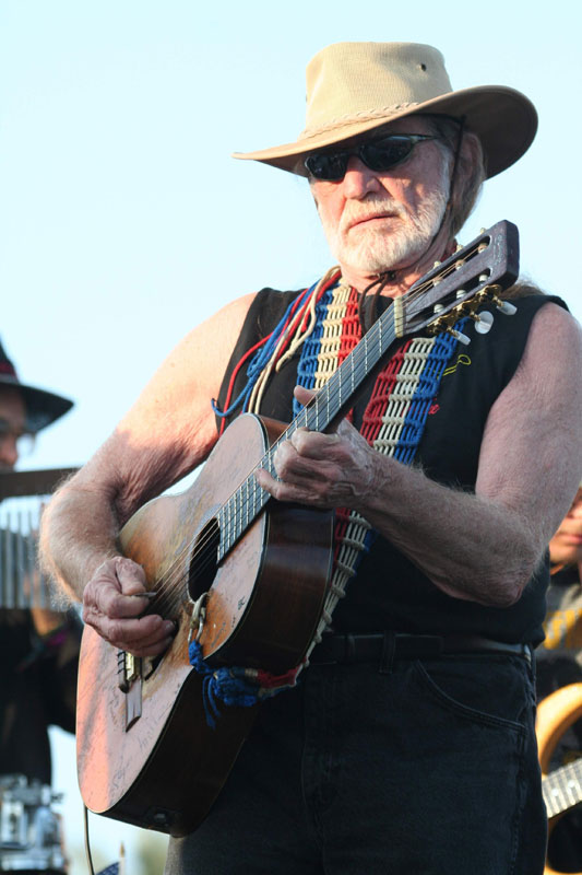 Wilile Nelson, Coachella 2007, Photo by Paul Familetti